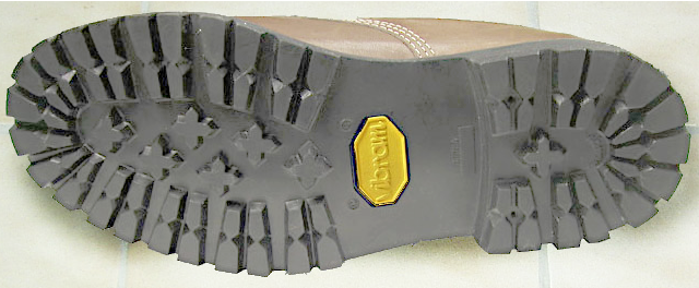 Enhanced photo showing Vibram original "Carrarmato" lug sole pattern